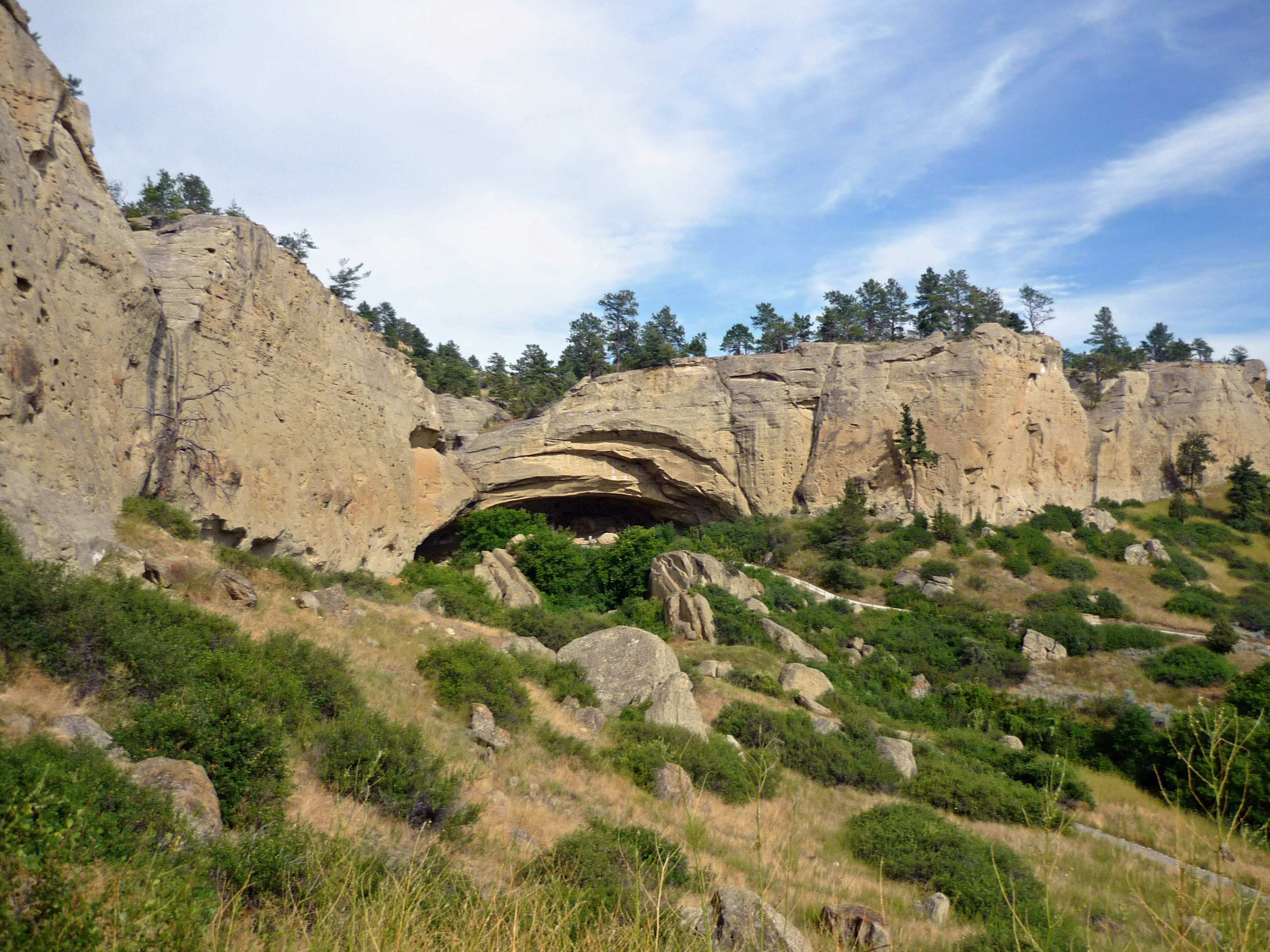 Pictograph Cave in Pictograph Caves State Park near Billings, Montana